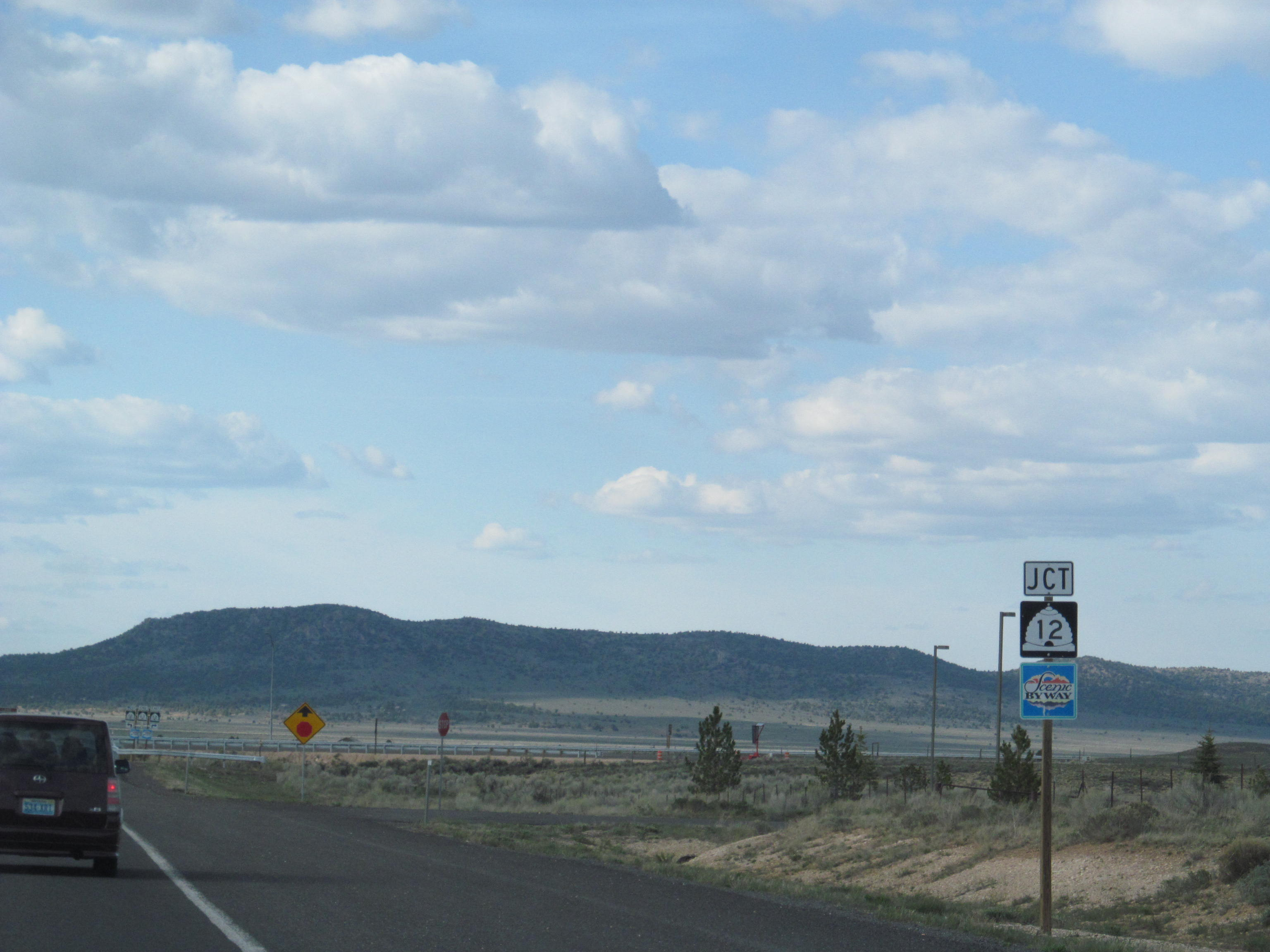 Northern terminus of Utah State Route 63 at Utah State Route 12